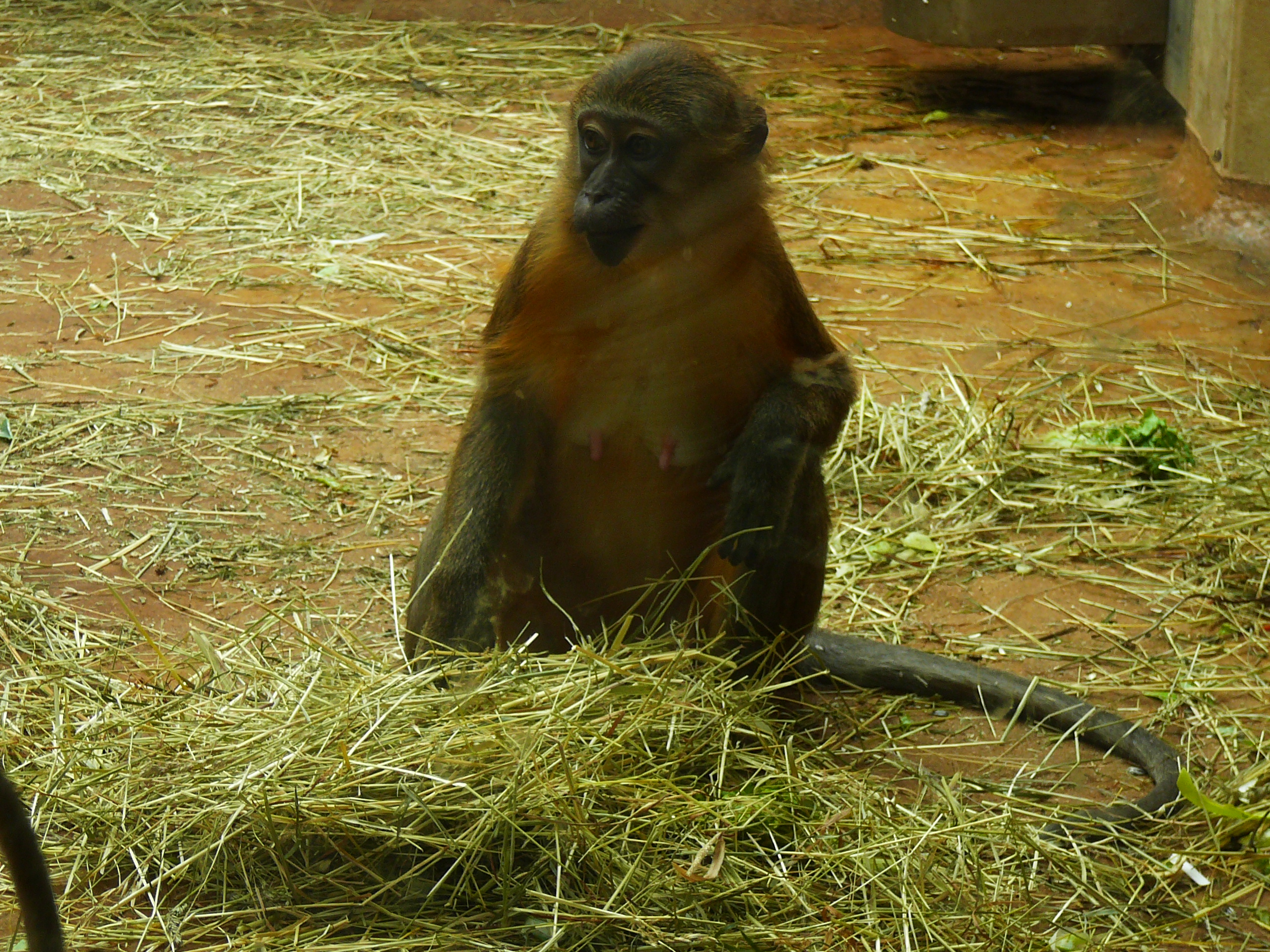 Cercocebus chrysogaster